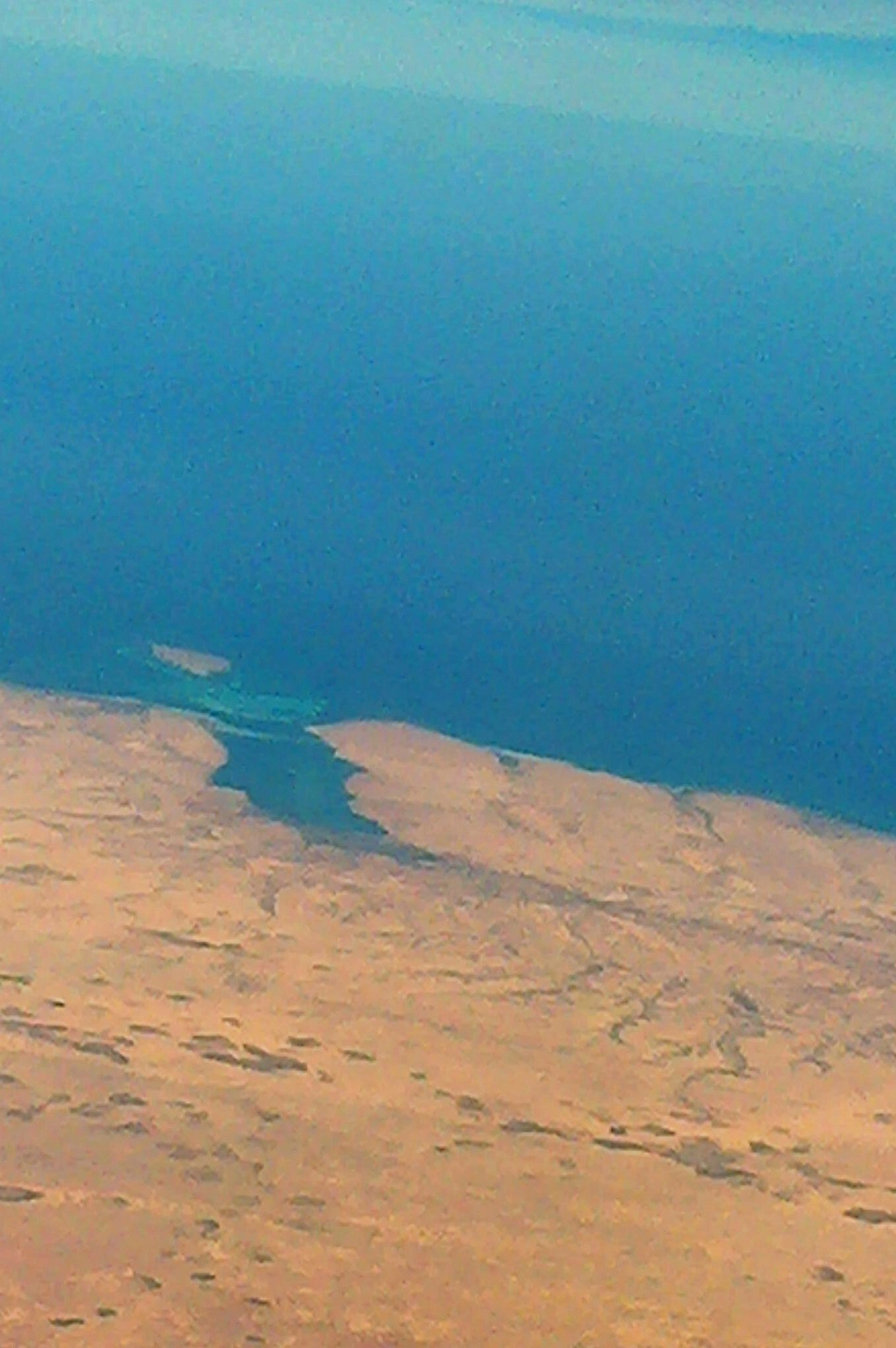 Bay of Ain el Gazalam, Libya.